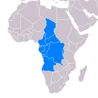 A map of Barthélemy Boganda's proposed United States of Latin Africa. Countries in blue indicate constituant states proposed by Boganda, grey represents unaffiliated ststes.